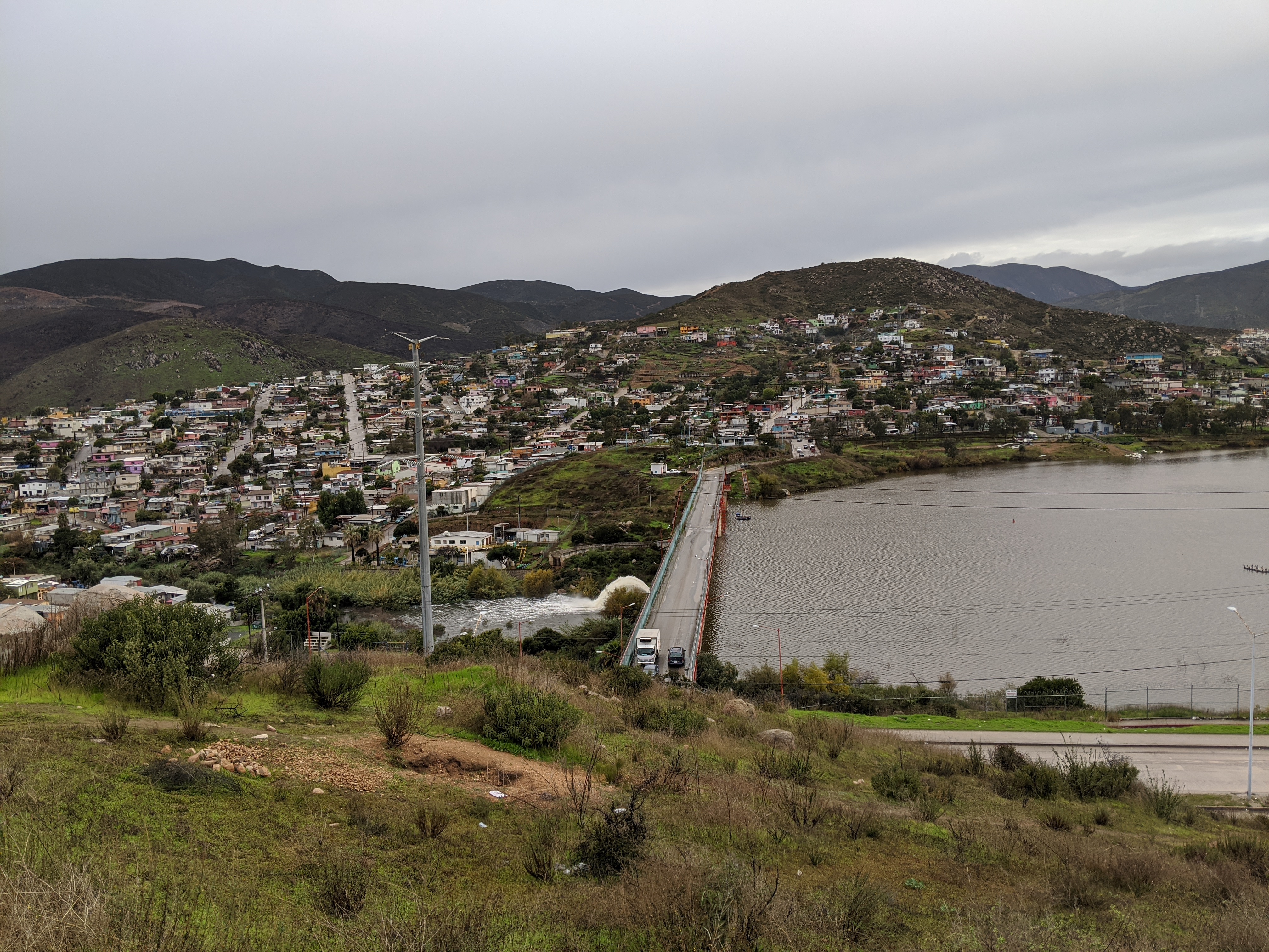 A photo of the Emilio Lopez Zamora dam with its floodgate open